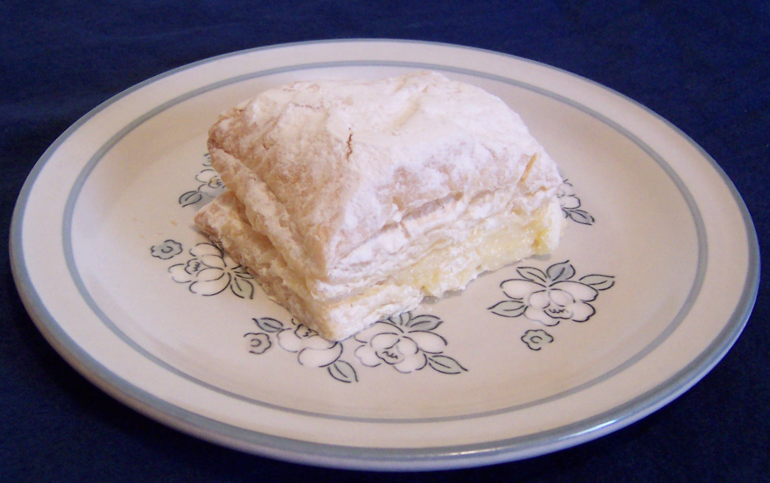 Miguelito de La Roda (en Albacete, España) (Cropped version)